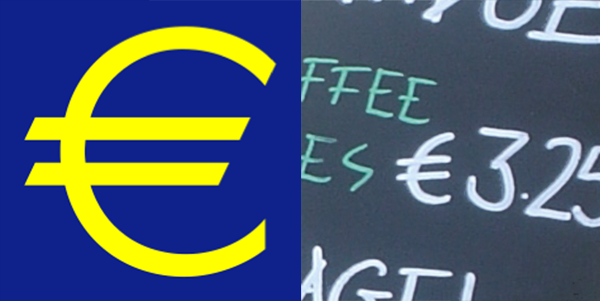 The Euro symbol (€) printed and in handwriting